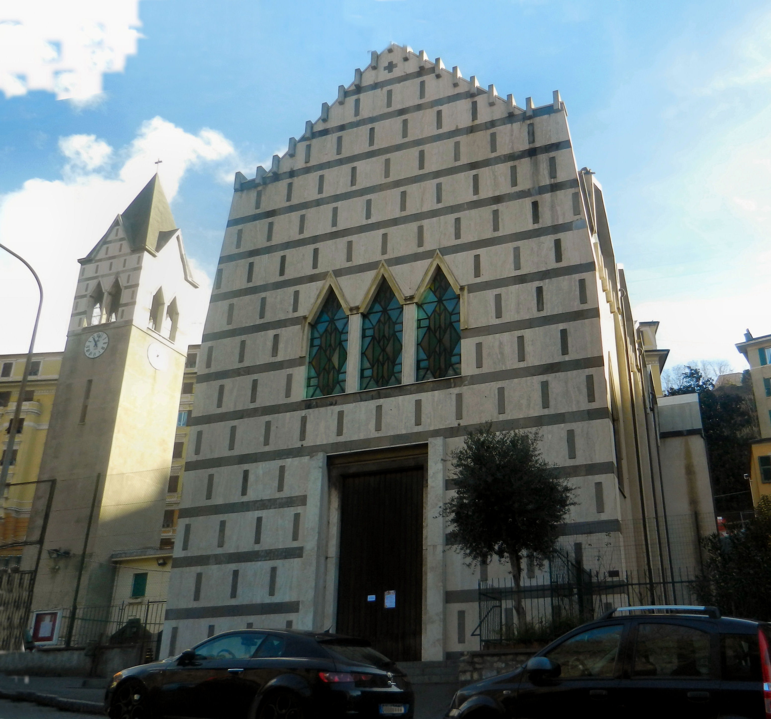 Genoa, Italy, quarter of Sampierdarena, church of San Bartolomeo at Fossato